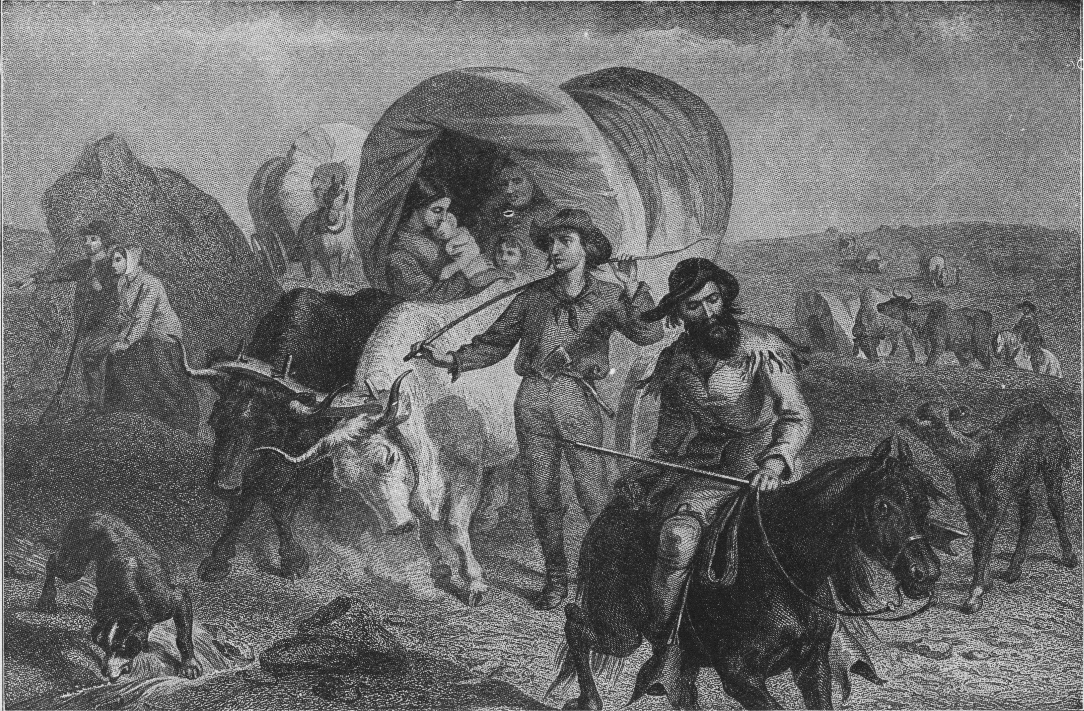 This is an image or page from The How and Why Library, a book first published in the United States in 1909. Location: Pioneer Days and Ways, between pages 34 and 35